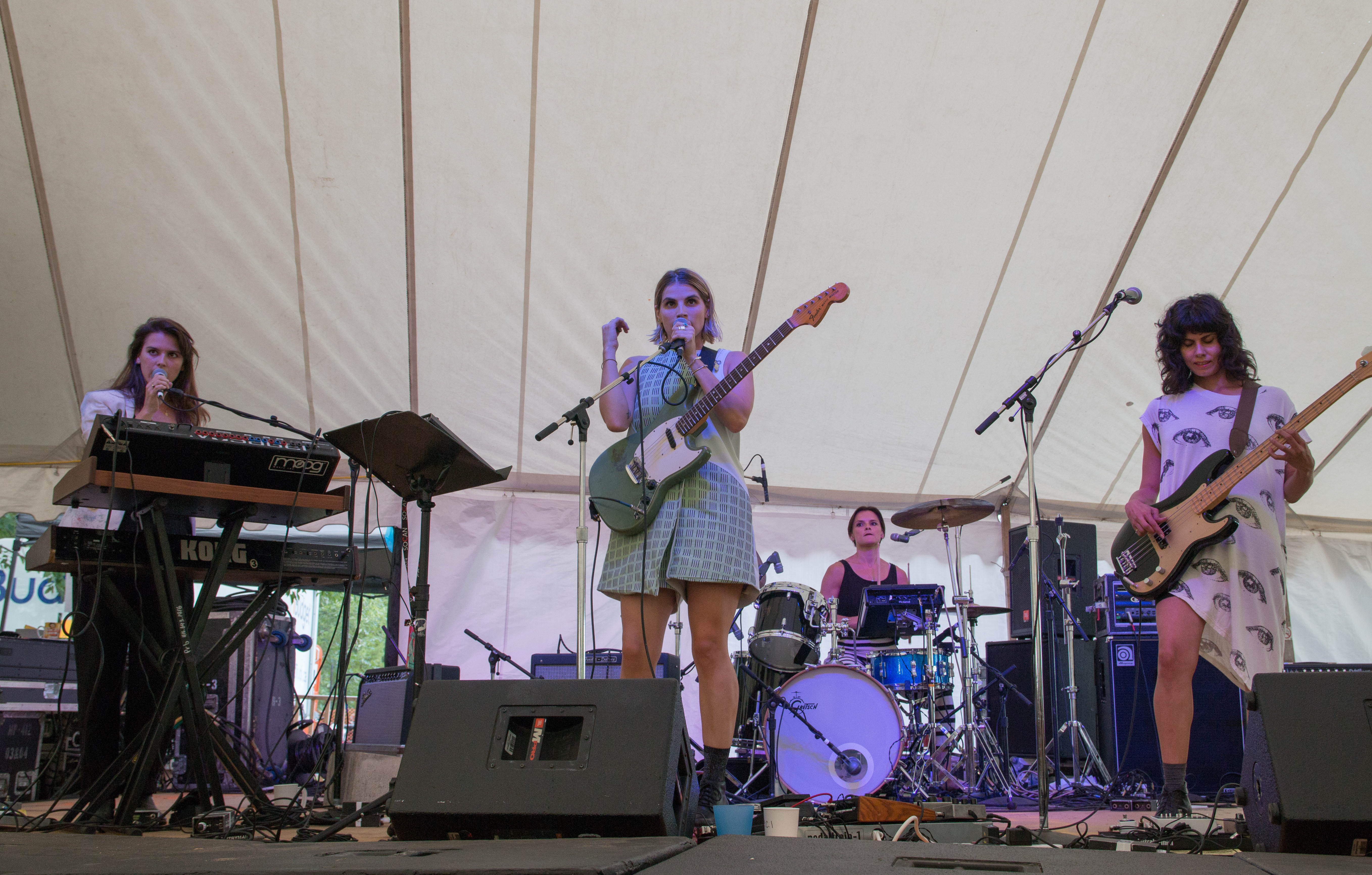 The band TEEN performing at the 2015 Hillside Festival in Guelph, ON